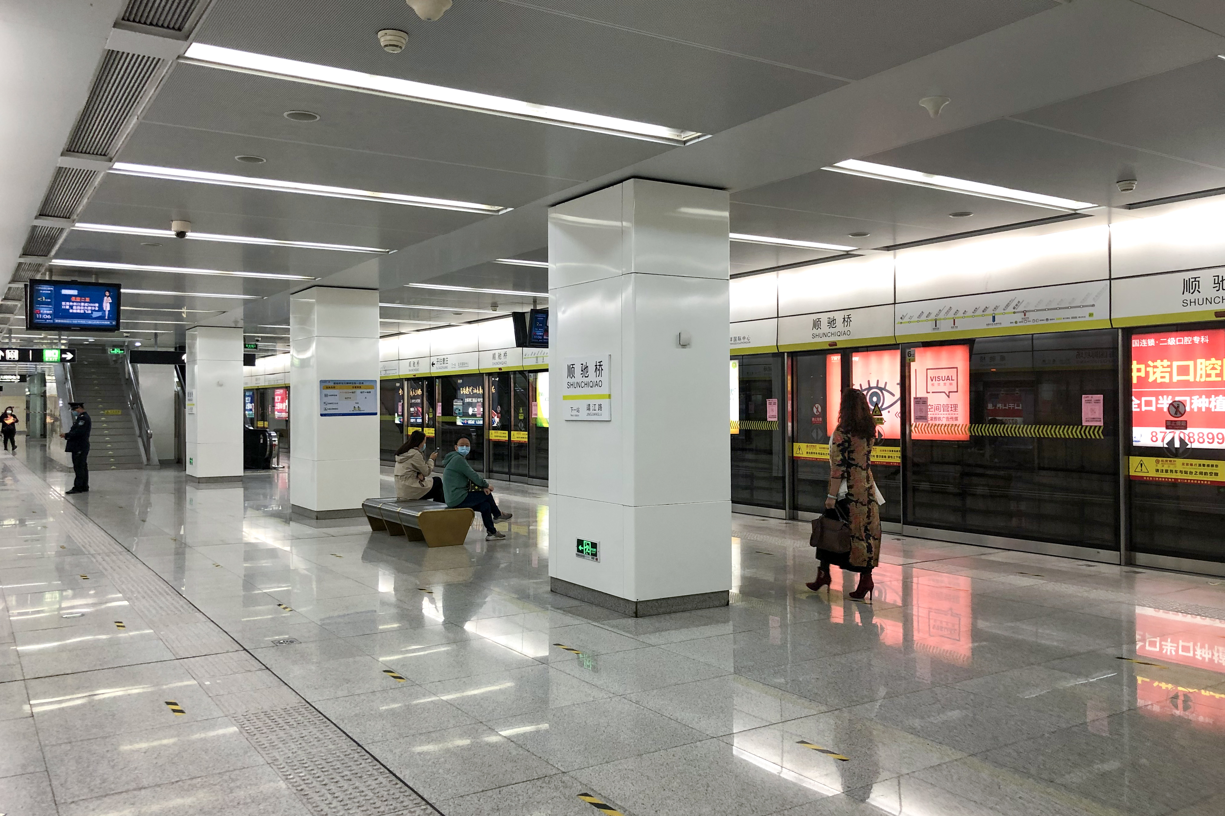 Just one of the by-products of my An-225 hunt...